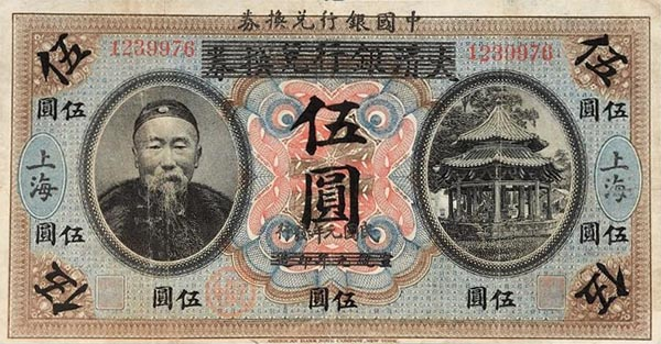 A Chinese banknote issued by the Bank of China during the period that the government of the Republic of China administered the Chinese Mainland. This banknote was issued to circulate all over the territories held by the Republic of China at the time.